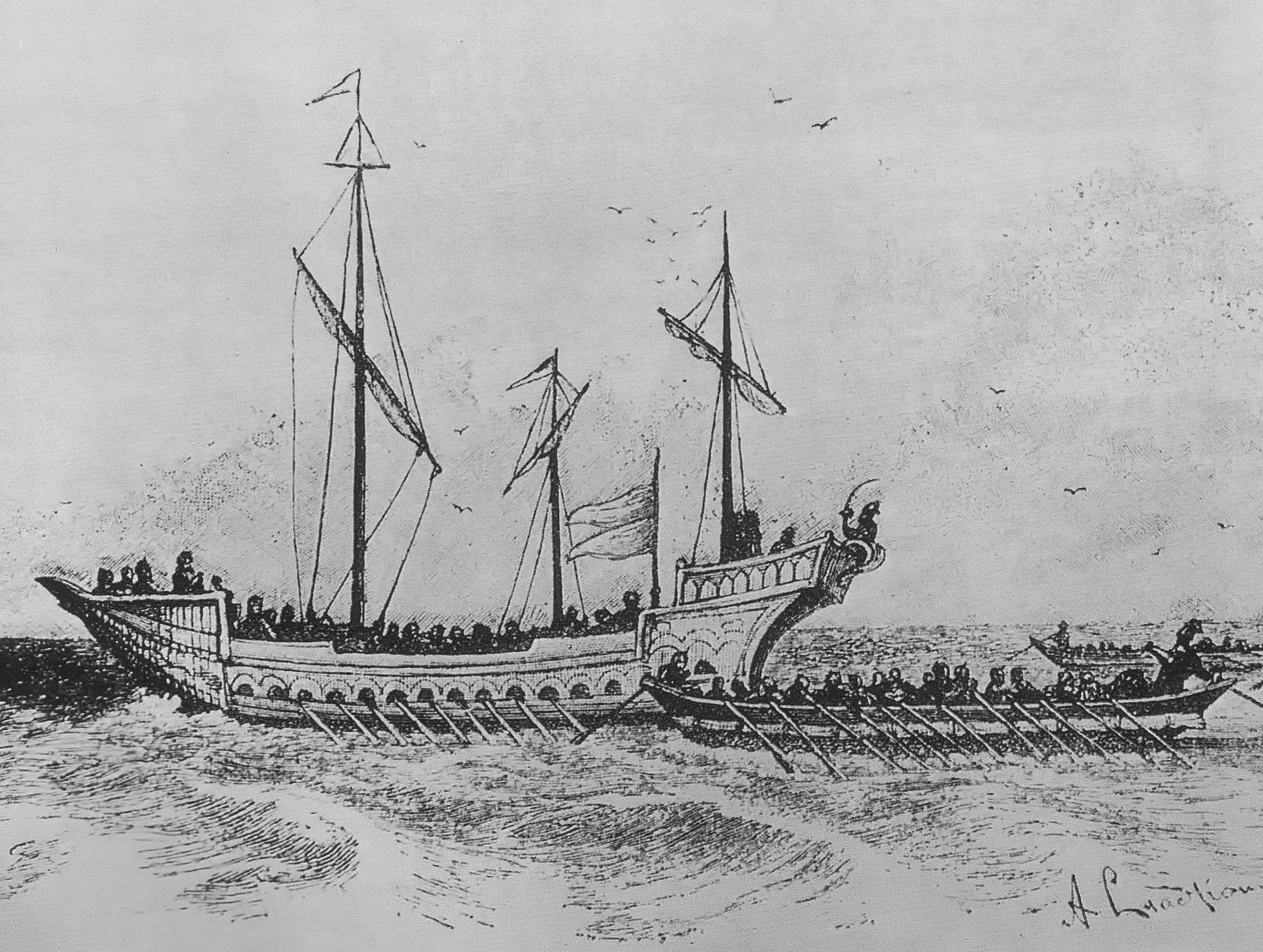 Zaporozhian Cossack ships - chaika boats and a captured Ottoman galley.